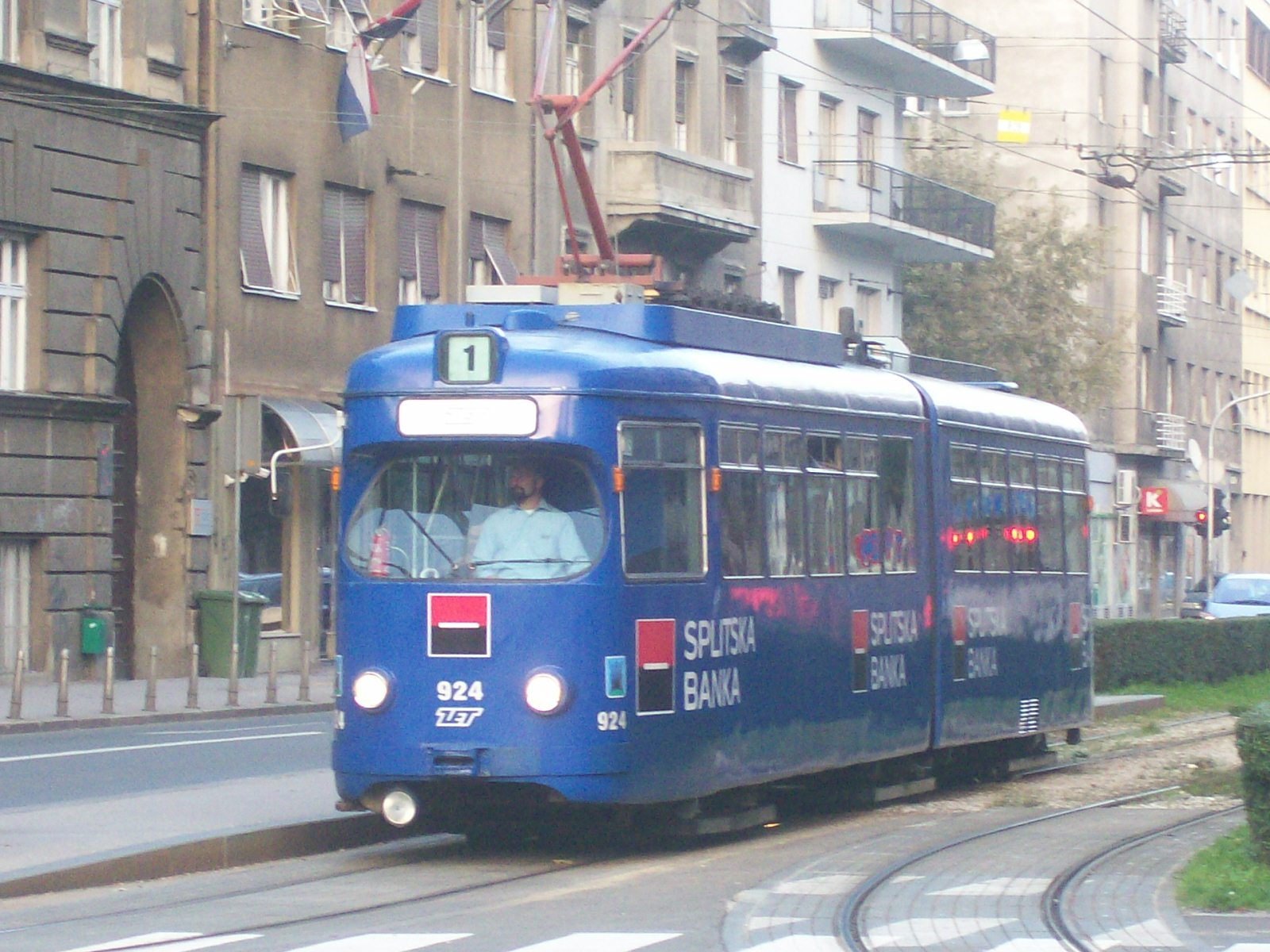 Düwag GT-6, type 901, Zagreb, Croatia.